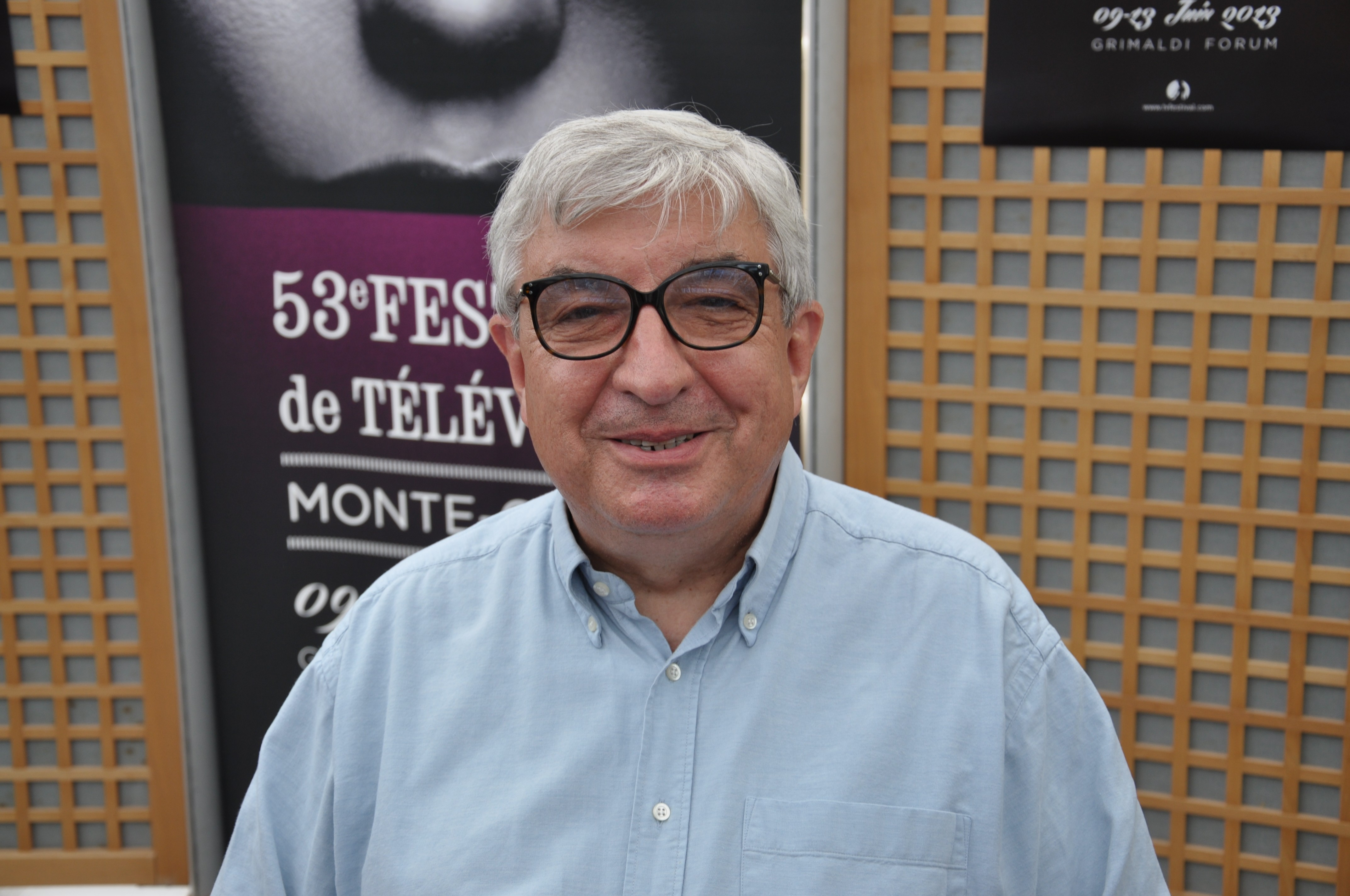 Thierry Heckendorn at the 2013 Monte-Carlo Television Festival.